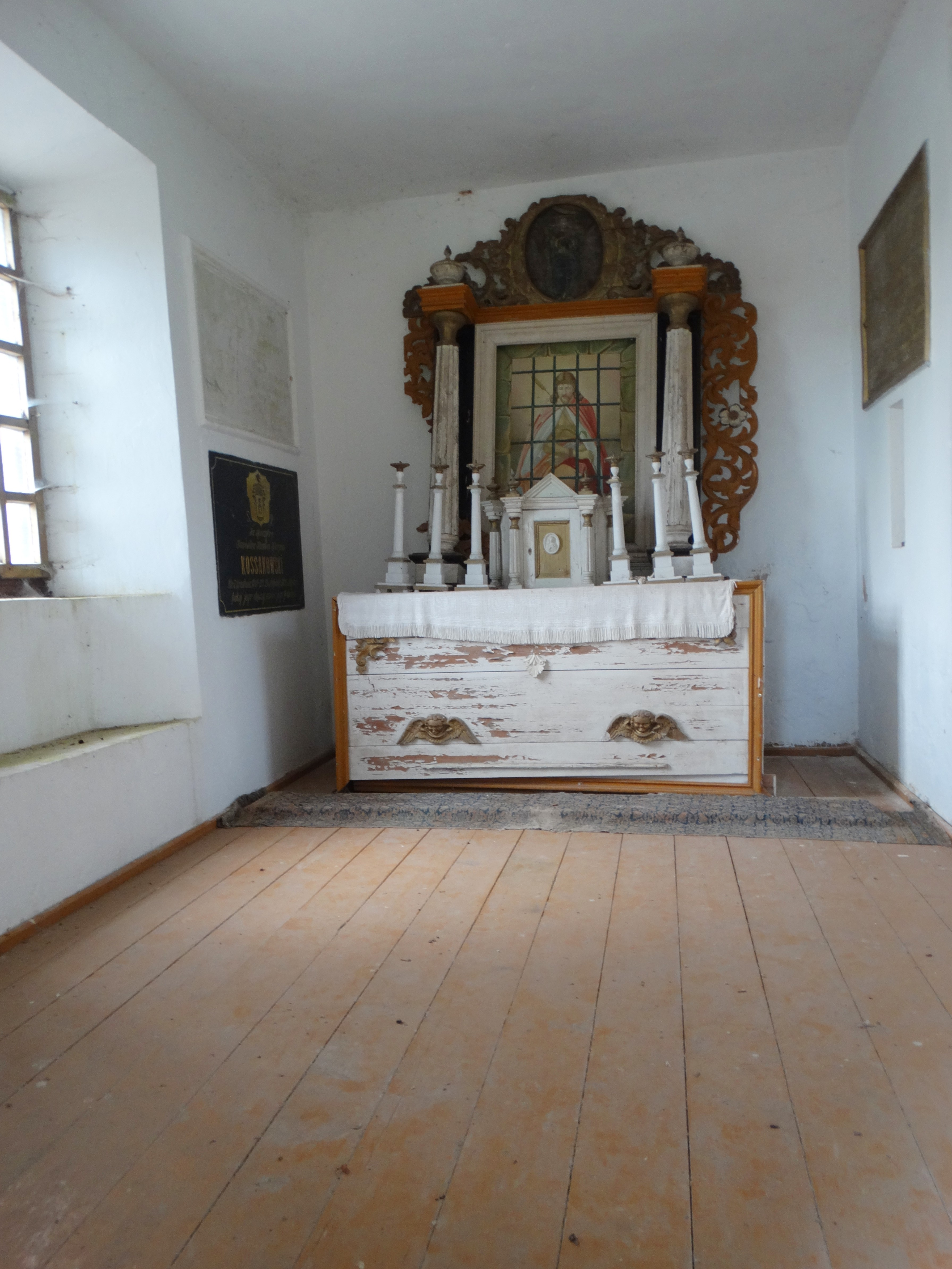 Kosakovski chapel, Žeimiai churchyard, Jonava district, Lithuania